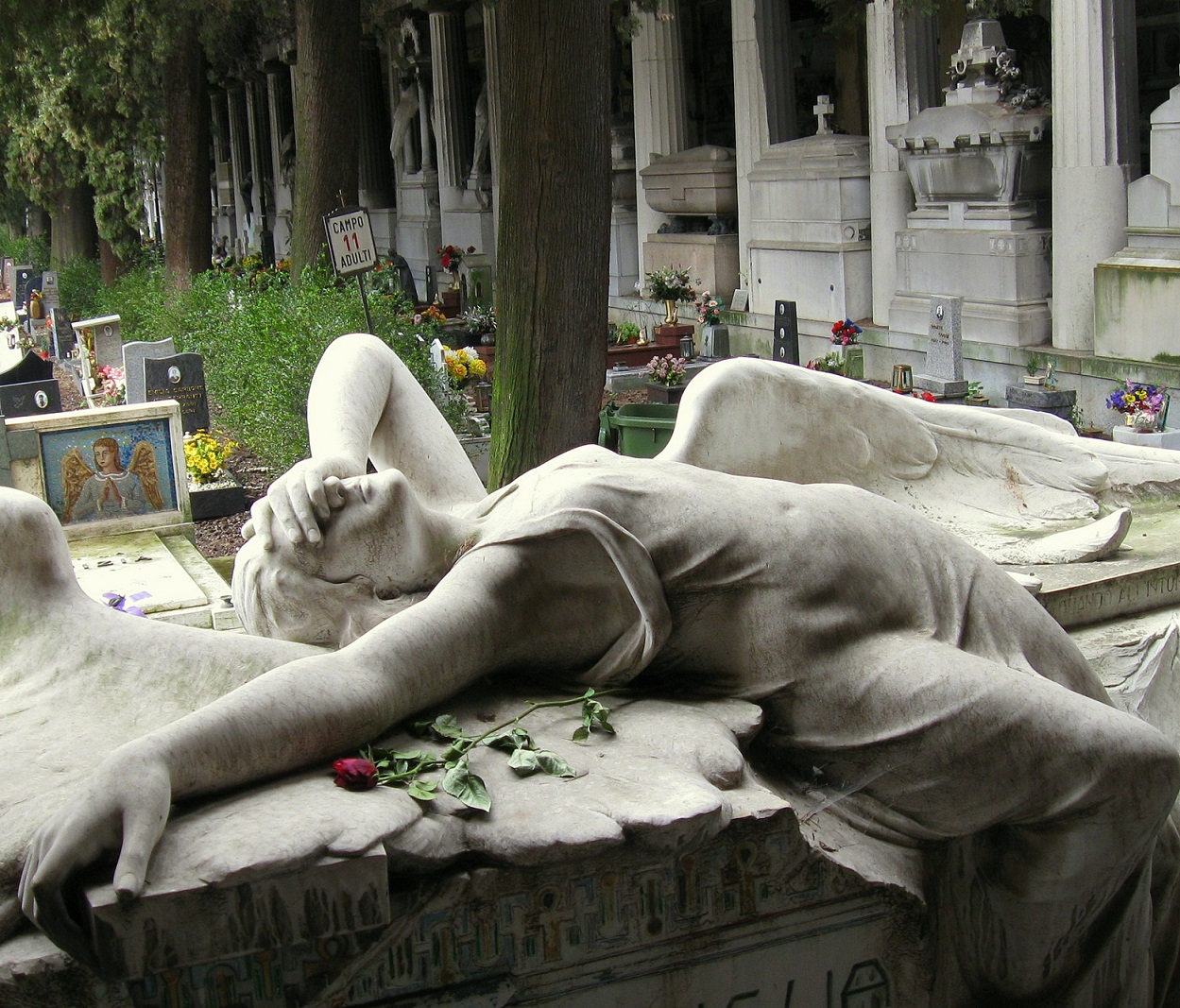 This was the tomb I most wanted to see. Recognizable to many from the picture sleeve on Joy Division's classic "Love Will Tear Us Apart." So moving and beautiful, as with so many other tombs here. (Staglieno Cemetery, Genoa Italy)